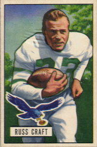 1951 Bowman football card of Russ Craft: Eagles